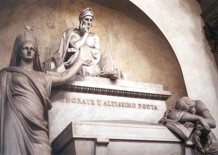 Photograph by Cheryl Lemanski